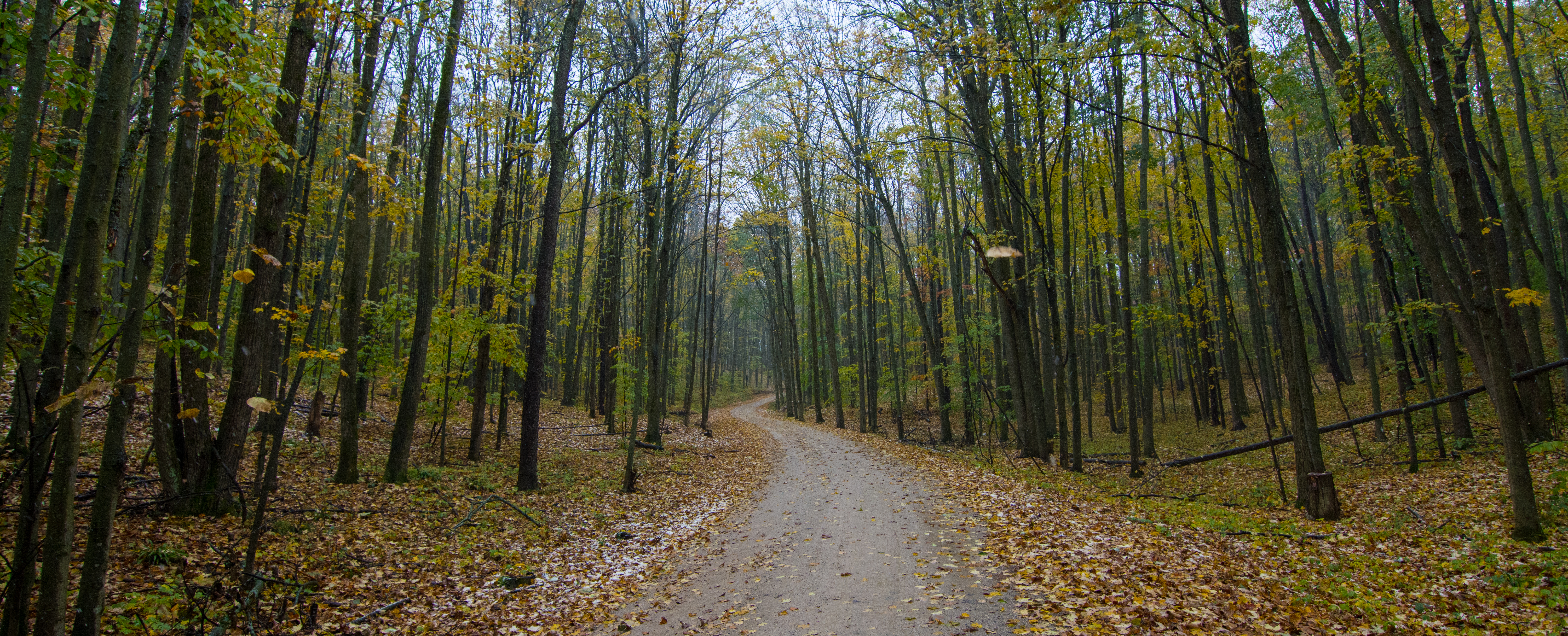 a USFS road in the Manistee National Forest, Michigan